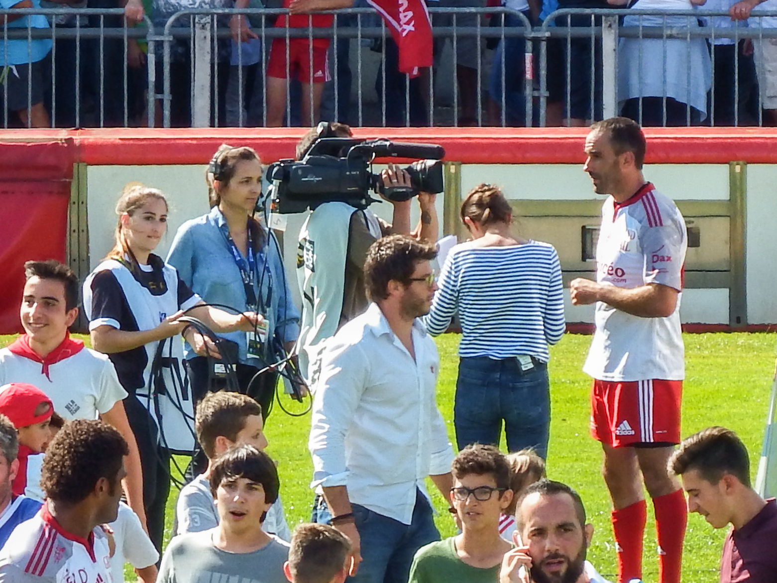 Pro D2 2015-2016 — 6 September 2015, Stade Maurice-Boyau. Match between: US Dax — Aviron Bayonnais Rugby Pro